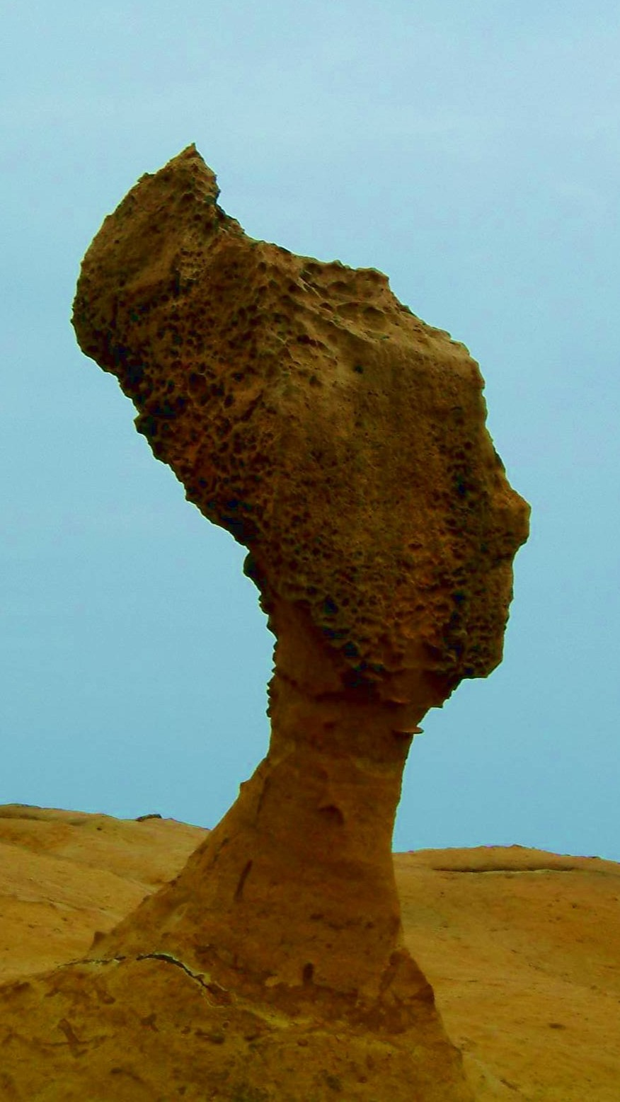 The Stone of the Queen's head, in Yehliu.